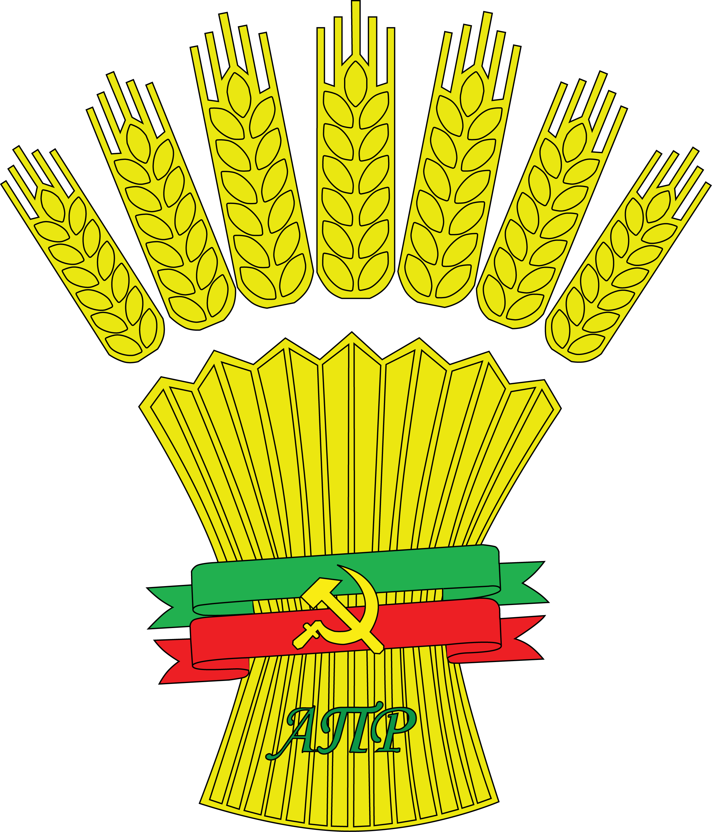 The logo of the AGRARIAN PARTY of RUSSIA, (2013)